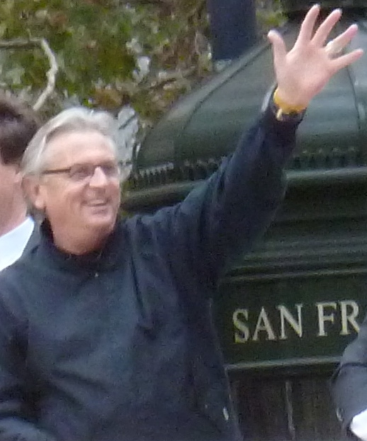 L-R: Dave Flemming, Duane Kuiper, Jon Miller, and Mike Krukow, broadcasters for the San Francisco Giants, stand on their float at the 2012 World Series victory parade in San Francisco.